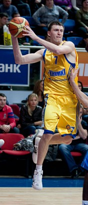 A BC Khimki captain Vitaly Fridzon